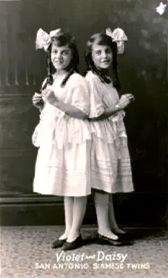 Daisy and Violet Hilton (born in 1908), age unknown.